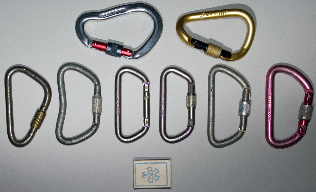 Old Soviet (bottom row) and moderm HMS (tor row) Carabiners.